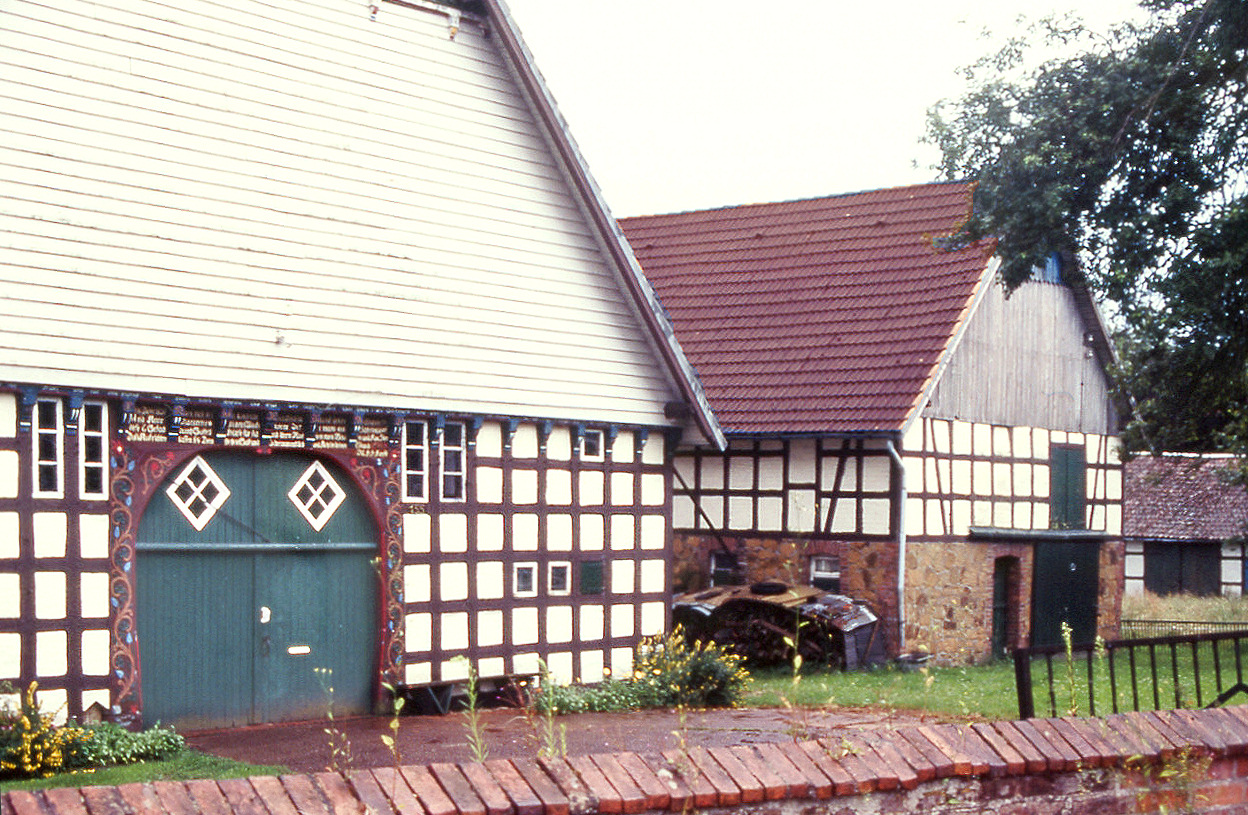 traditional Westfalian farmhouse near Melle, county of Osnabourgh (Osnabrück) in Lower Saxonia